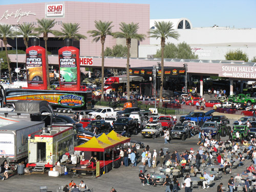 Outside the 2008 SEMA auto show at the Las Vegas Convention Center.